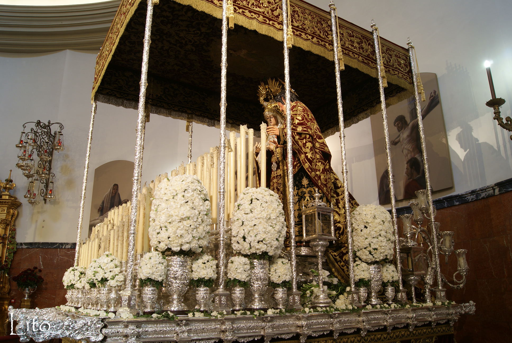 Palio de la Virgen del Mayor Dolor y Traspaso